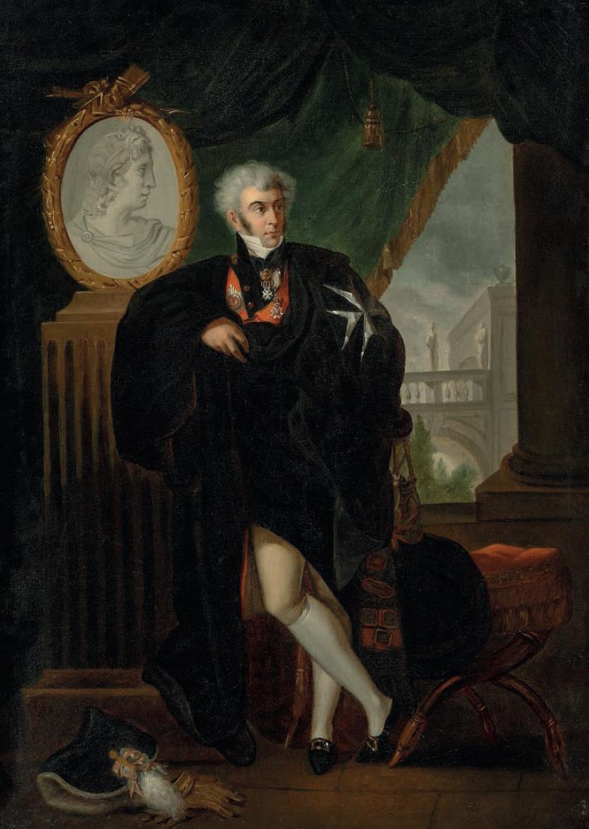 The chief Dmitry Naryshkin Hunt. Portrait of Ludwig Guttenbrunna, Hermitage.